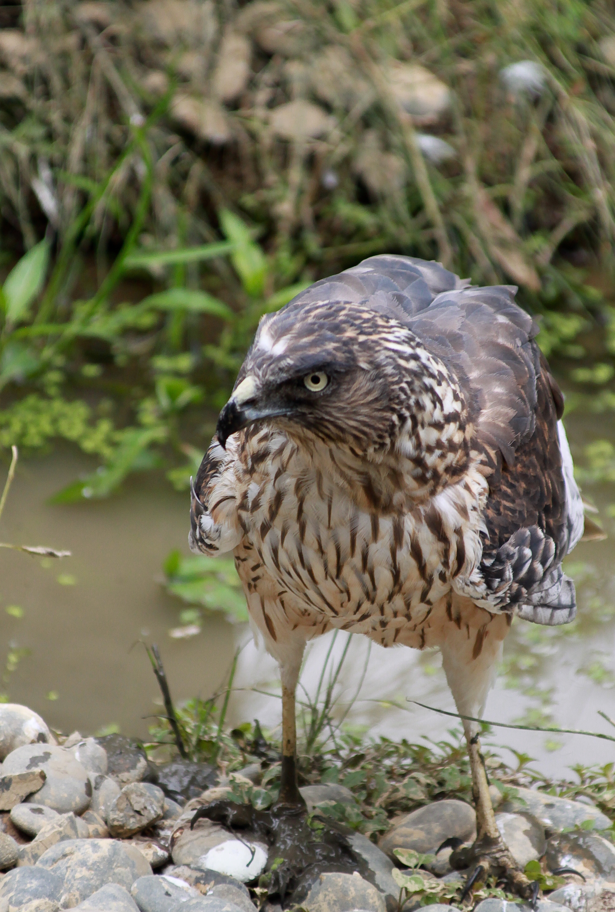 Swamp Harrier in Hamilton Zoo, New Zealand.